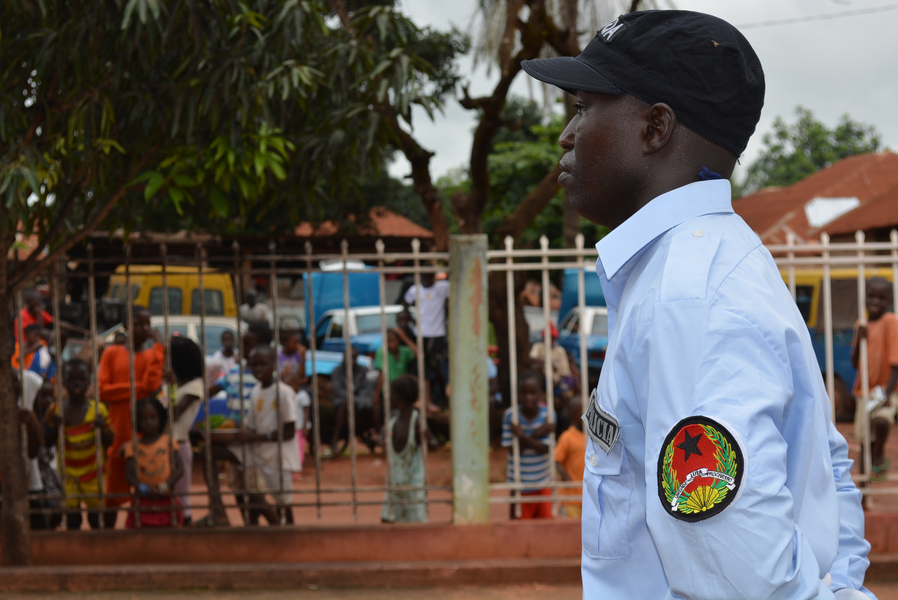 Public Order Police officer during a parade in Guinea-Bissau This is an image of "African people at work" from Guinea-Bissau